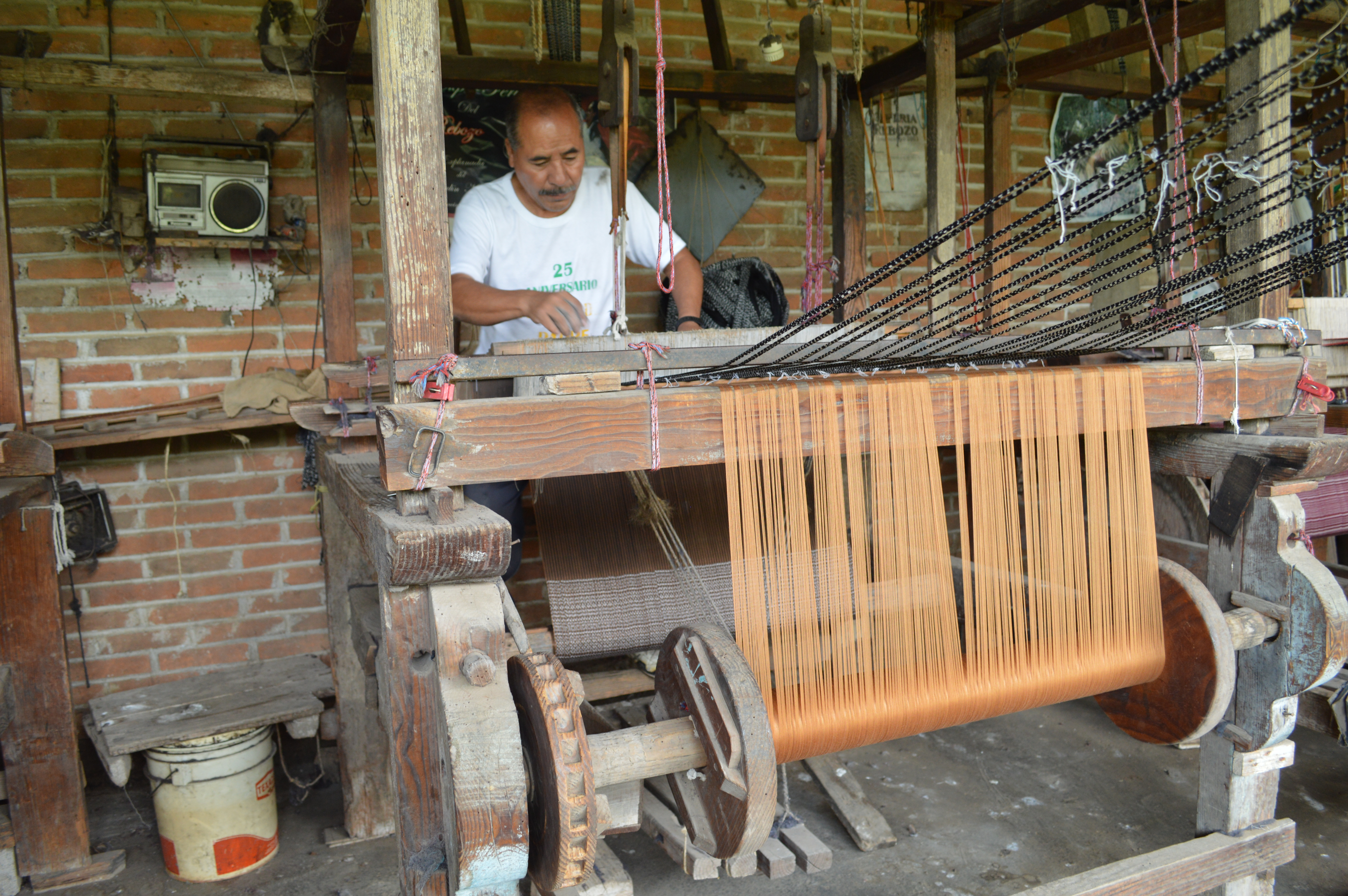 Working at a loom at the Inocencio Balboa workshop in Tenancingo, Mexico State, Mexico